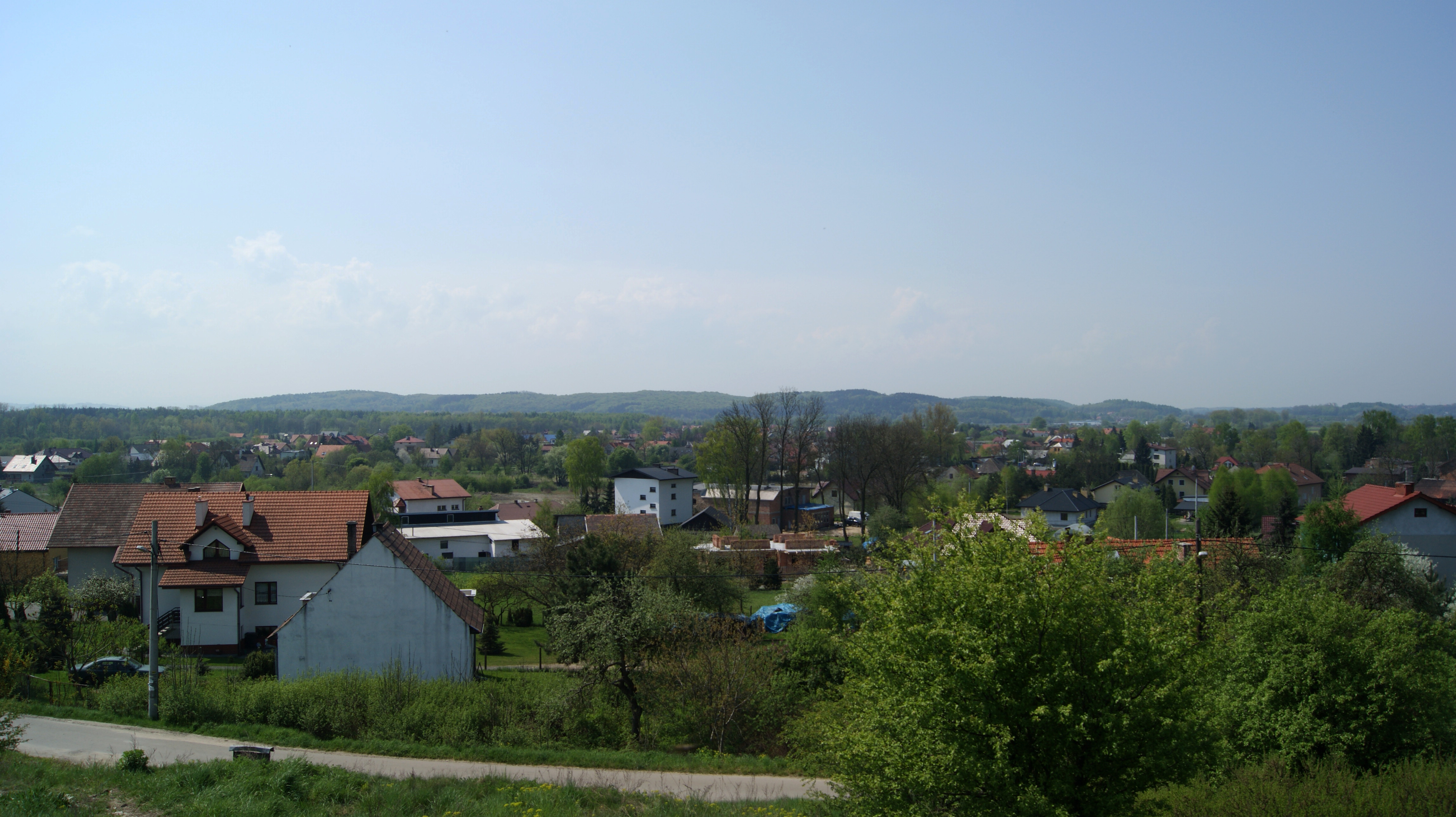 Kostrze view from NE, Krakow, Poland